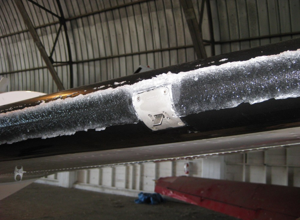 A Beech C99 airplane, N206AV, was substantially damaged during a hard landing following an instrument approach in instrument meteorological conditions at Kearney Municipal Airport (EAR), Kearney, Nebraska.